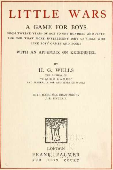 Internal cover of book Little Wars by writer H. G. Wells, first edition, July 1913 by Frank Palmer, London